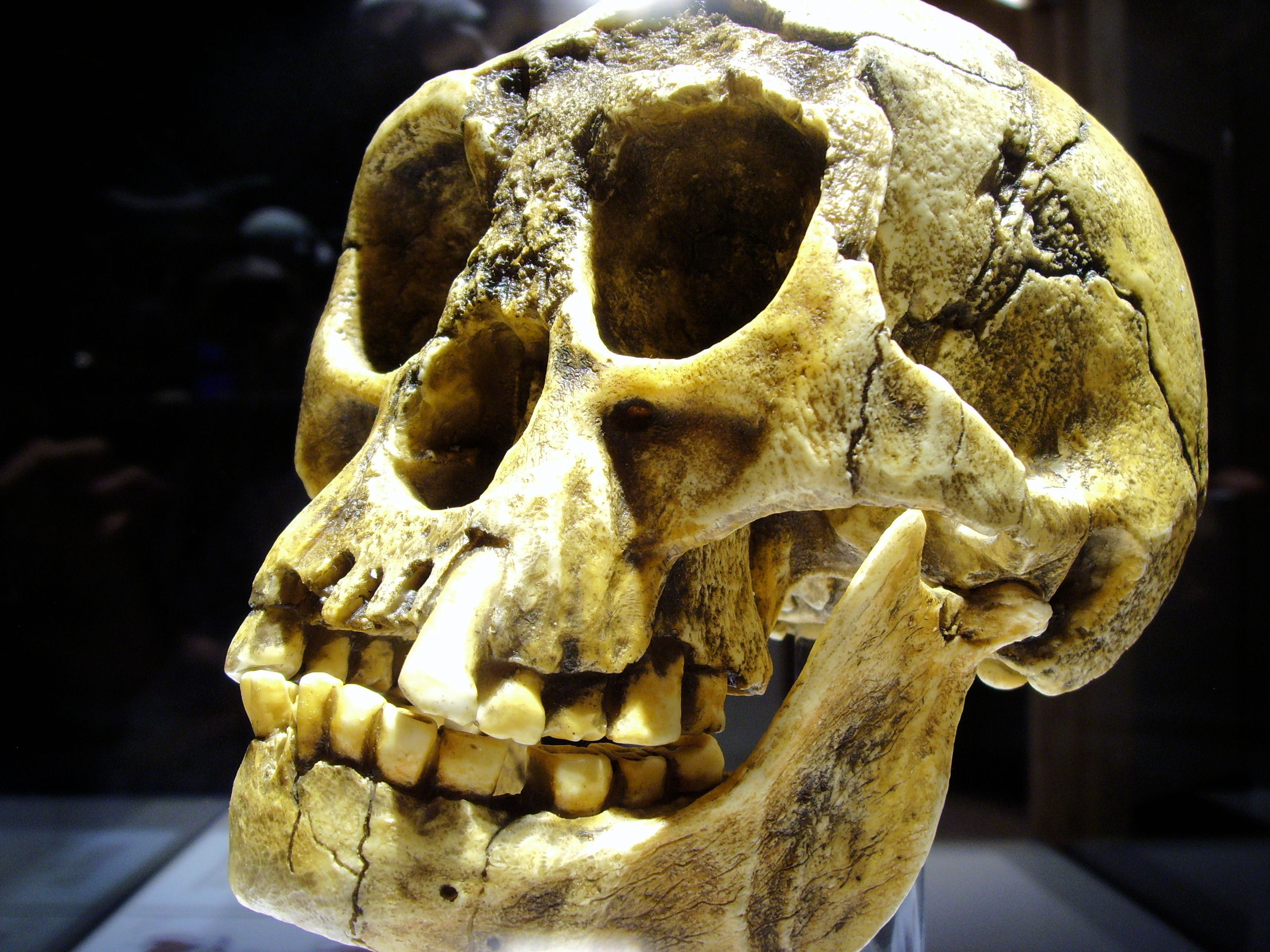 Homo floresiensis, replica